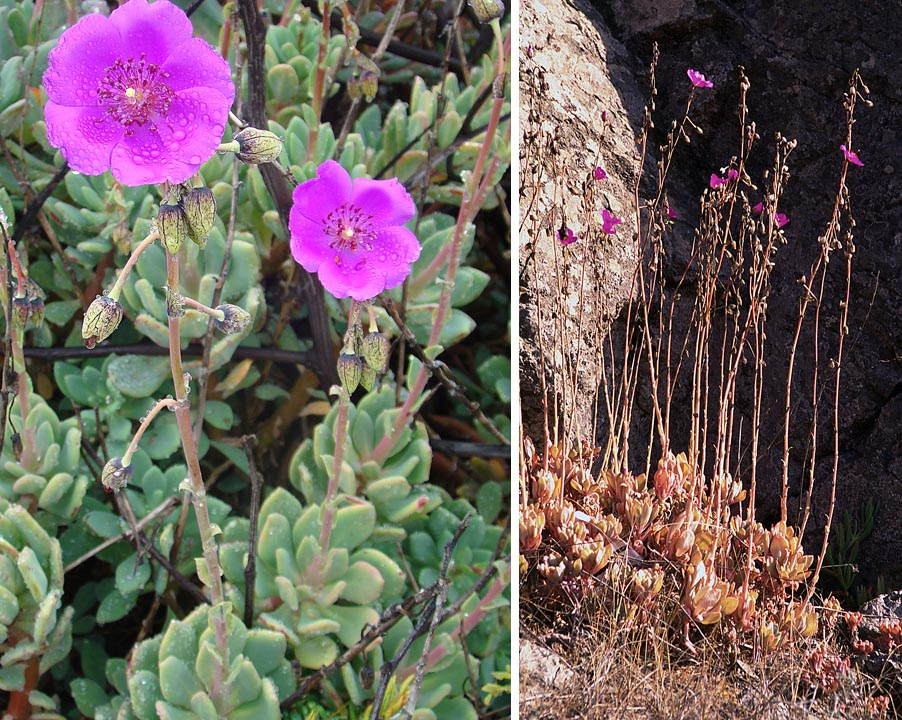 A succulent form of Pata de Guanaco native to Chilean beaches. In context at